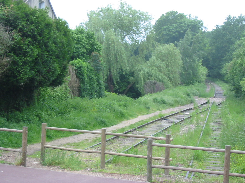 Old ligne de Sceaux, between Saint-Rémy-lès-Chevreuse and Boullay-les-Troux, France